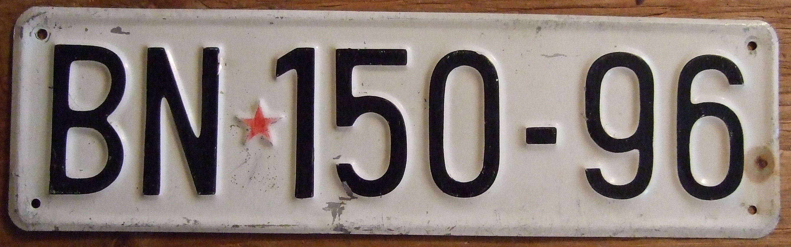 This plate is from the predominately Serbian city of Bijeljina in the state of Bosnia-Herzogovina in the former Yugoslavia. This heavier guage, lower numbered plate was probably issued in the 1960's or 70's.